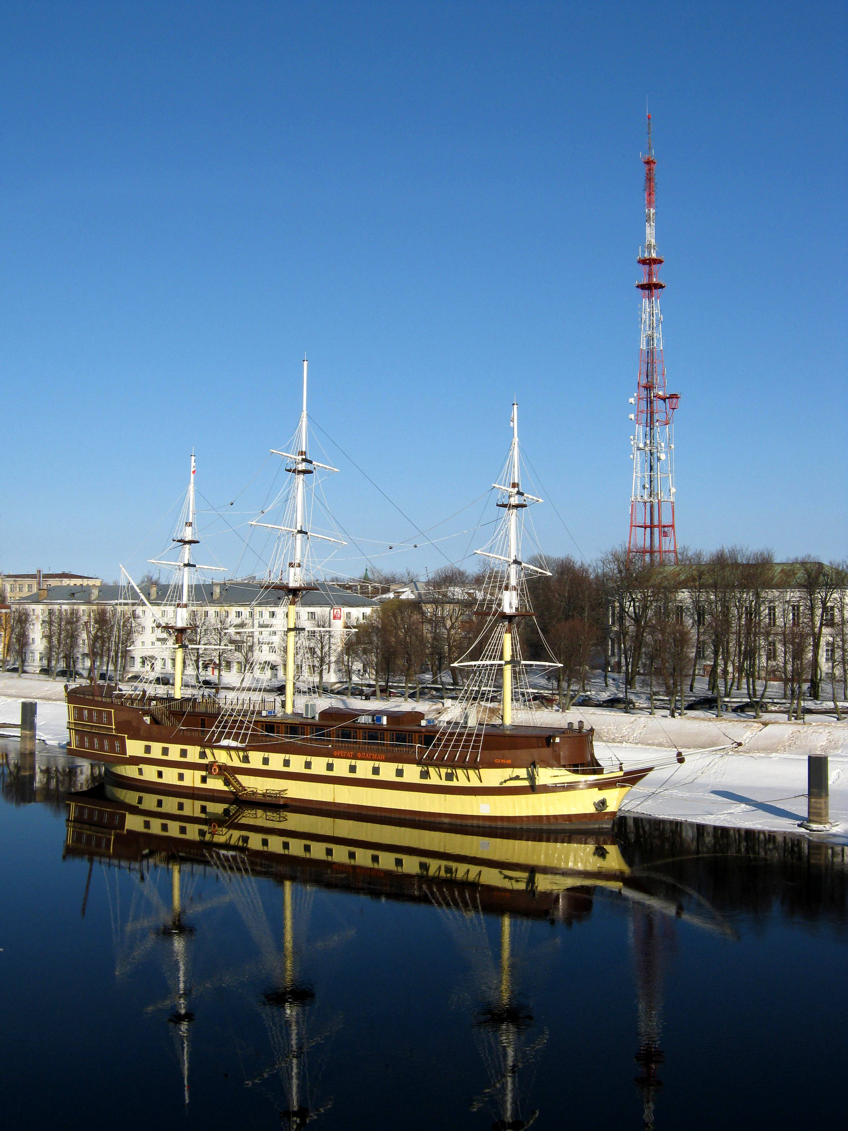 Fregat Flagman, Veliky Novgorod, seen from the pedestrian bridge.